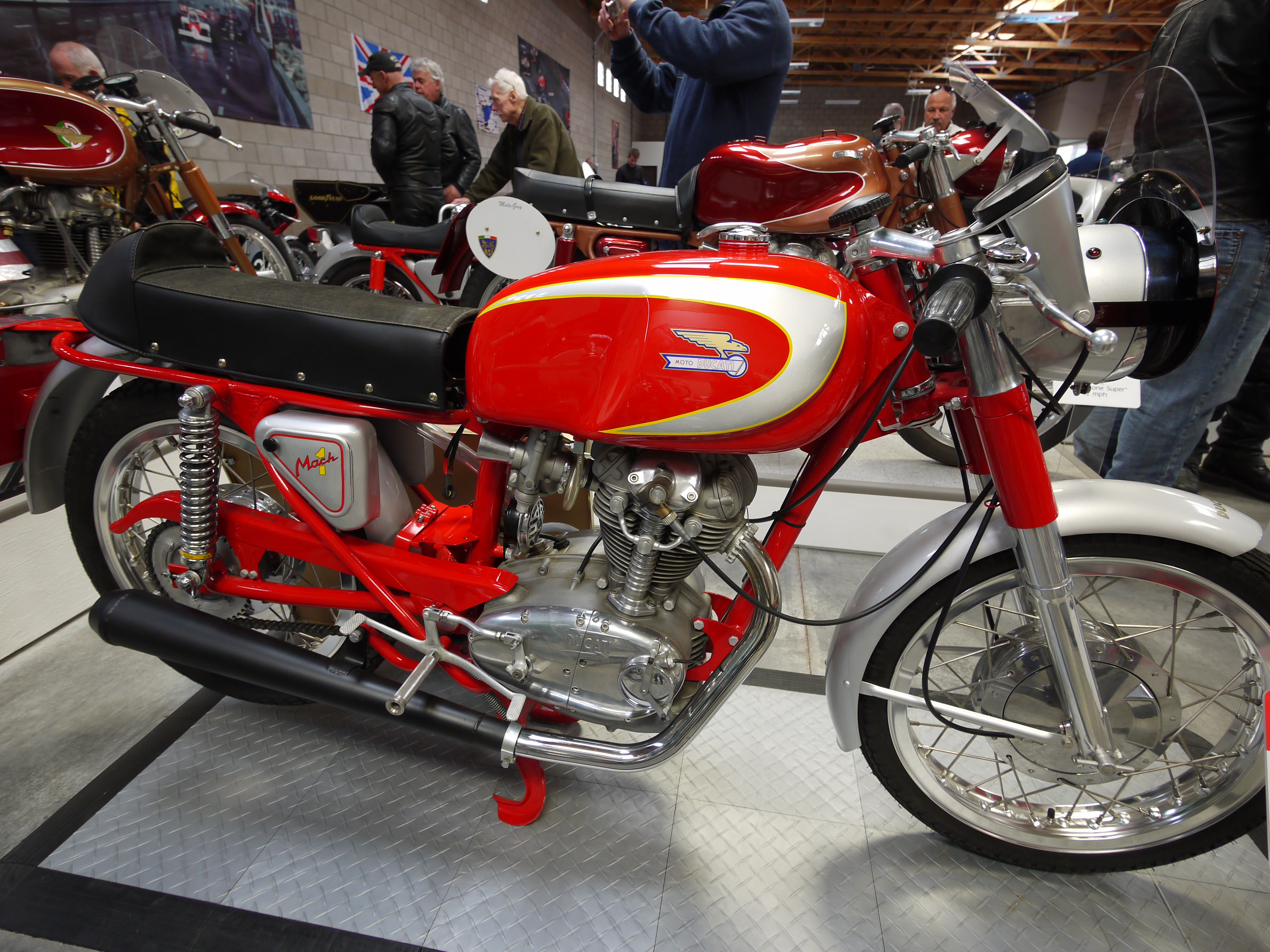 Ducati 250 Mach 1 with friction steering damper, 1964